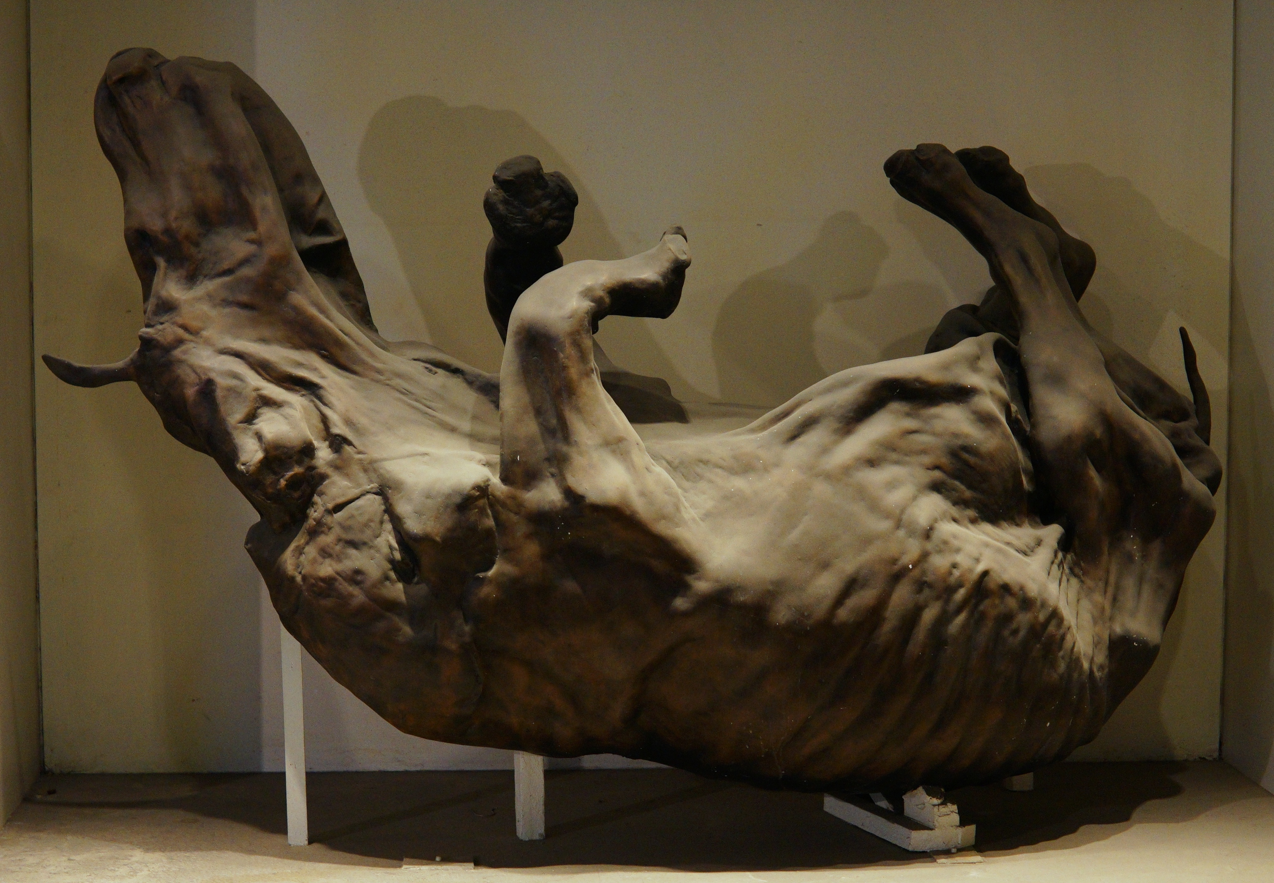 Wooly Rhino at the Natural History Museum